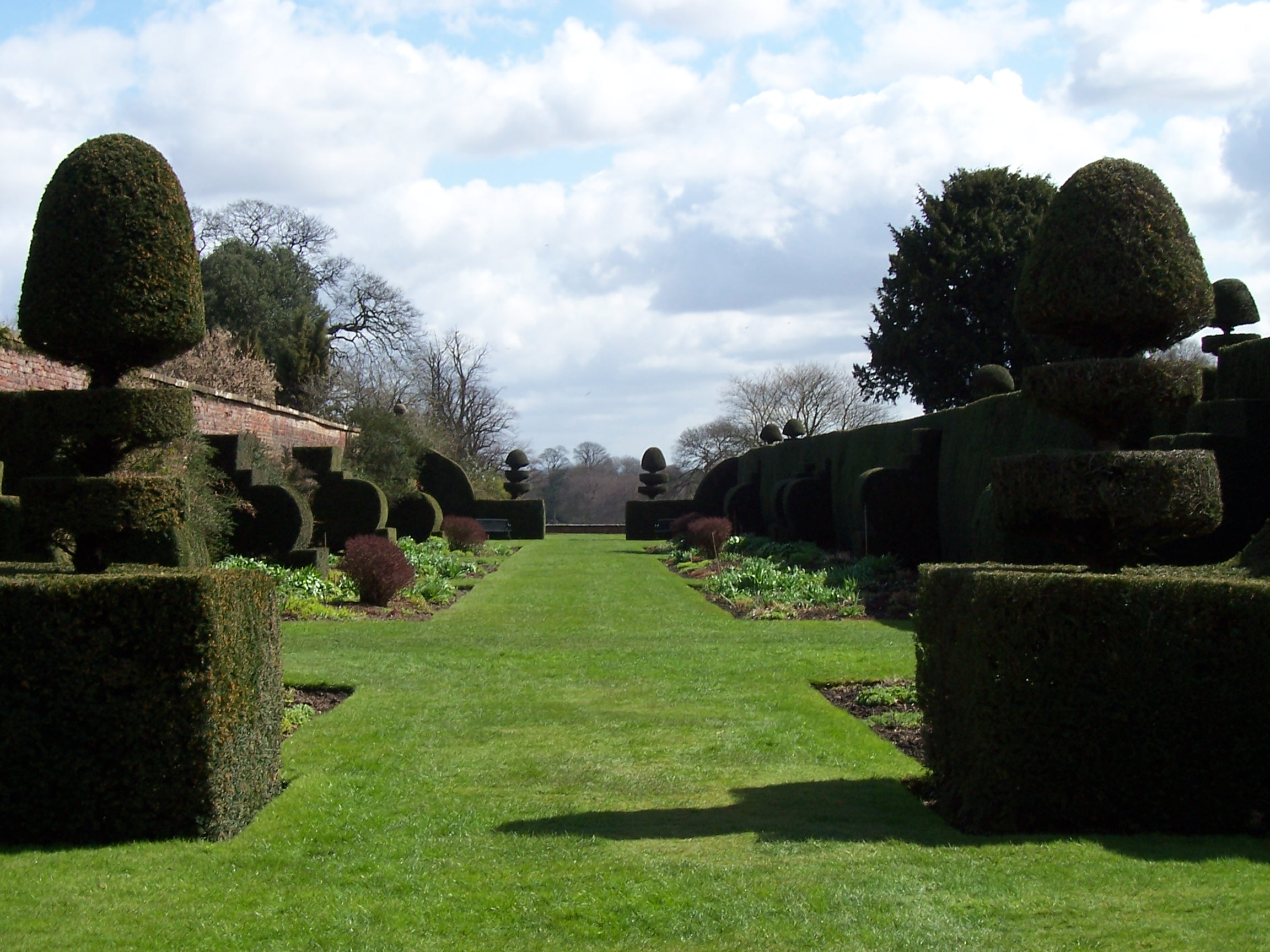 Gardens at Arley Hall, Cheshire